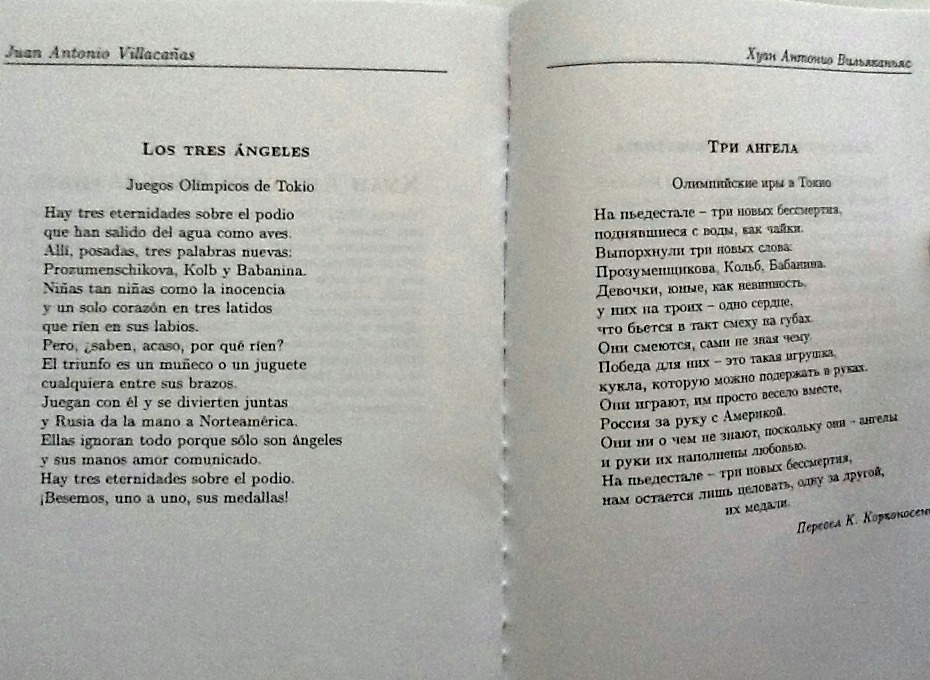 Picture from an anthology Russian-Spanish.